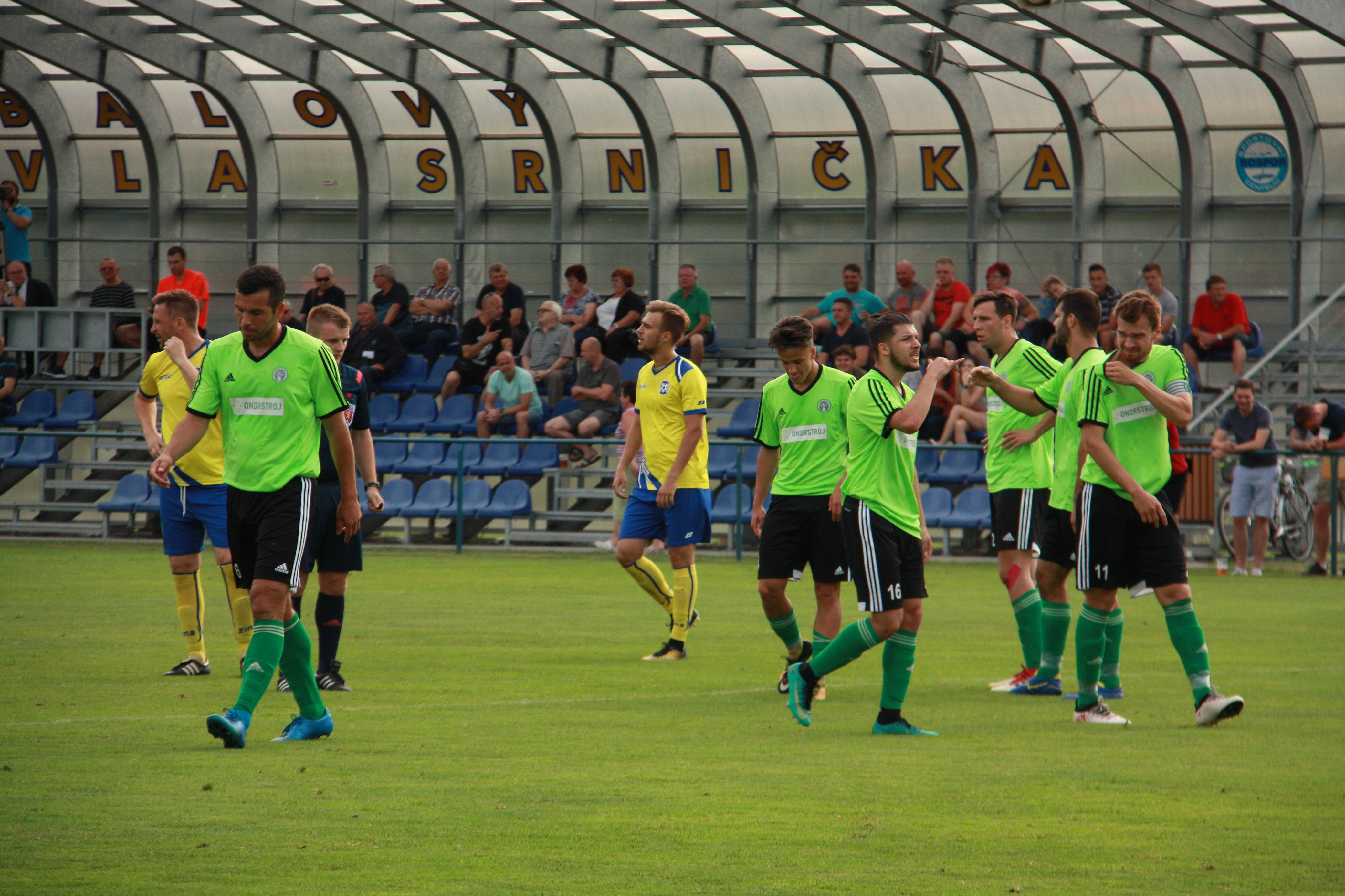 A football match between FK Bospor Bohumín and FK Jeseník on 18 June 2018